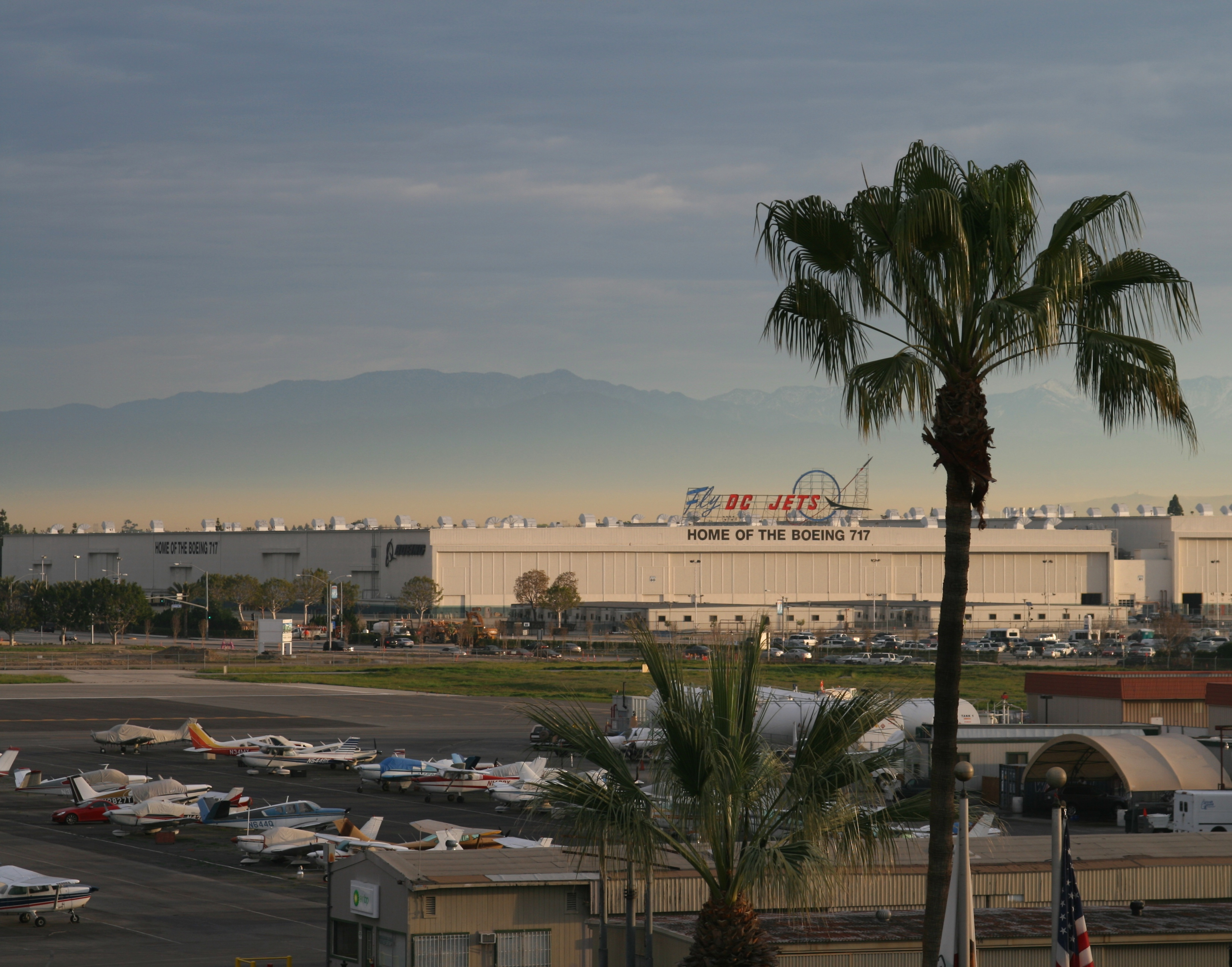 Looking to the North from the Terminal. Old Douglas facilities (now Boeing).